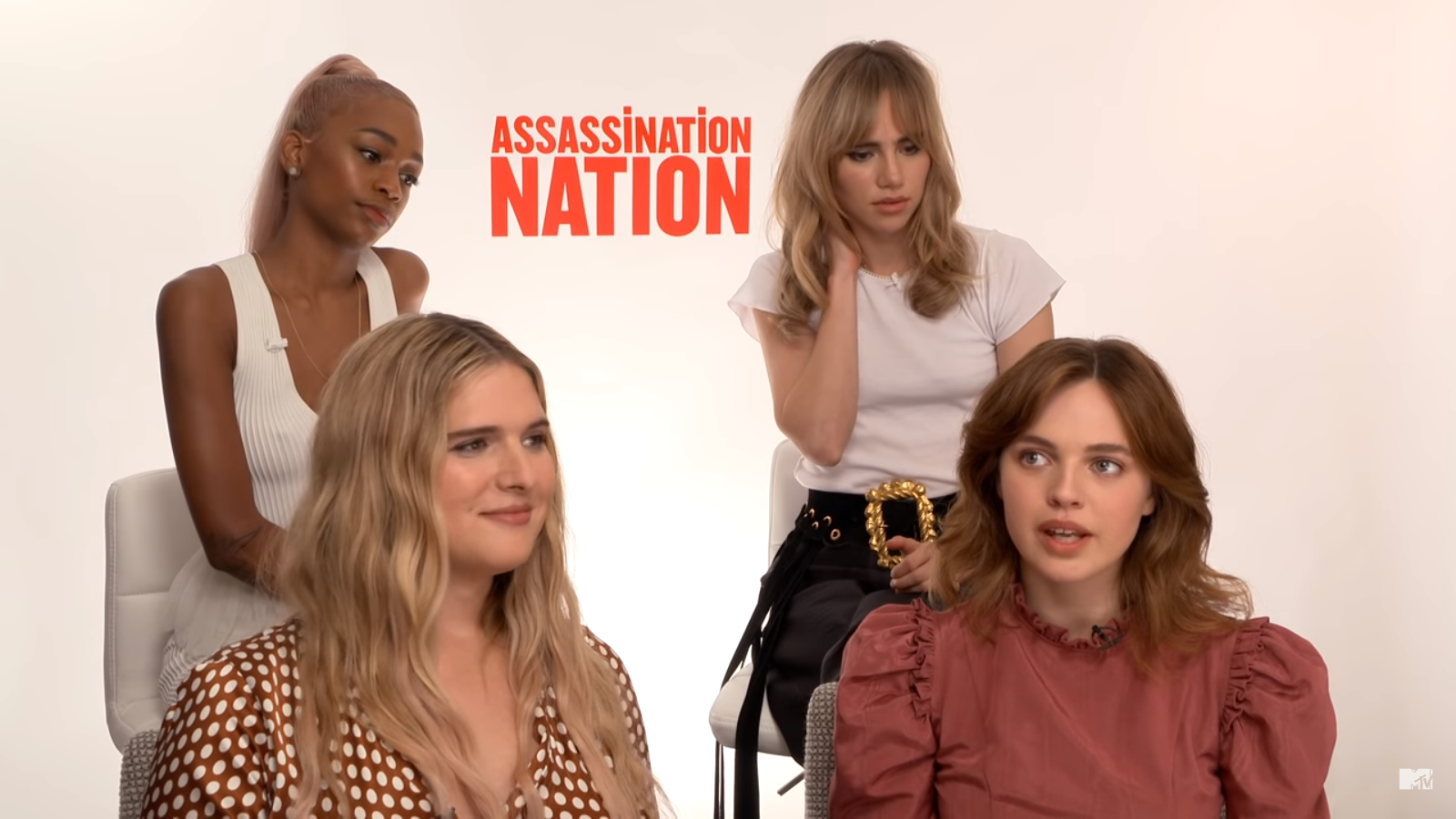 Assassination Nation stars Abra, Suki Waterhouse, Hari Nef and Odessa Young play a REVEALING game of Never Have I Ever, and reveal their funniest moments behind the scenes AND their character’s secret pasts!